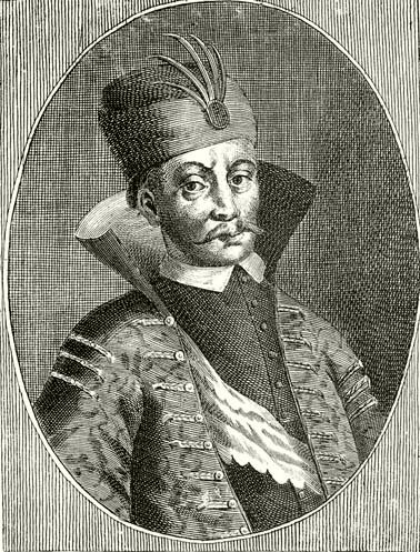 Thurzó Szaniszló 1576-1625 palatine (Kingdom of Hungary)